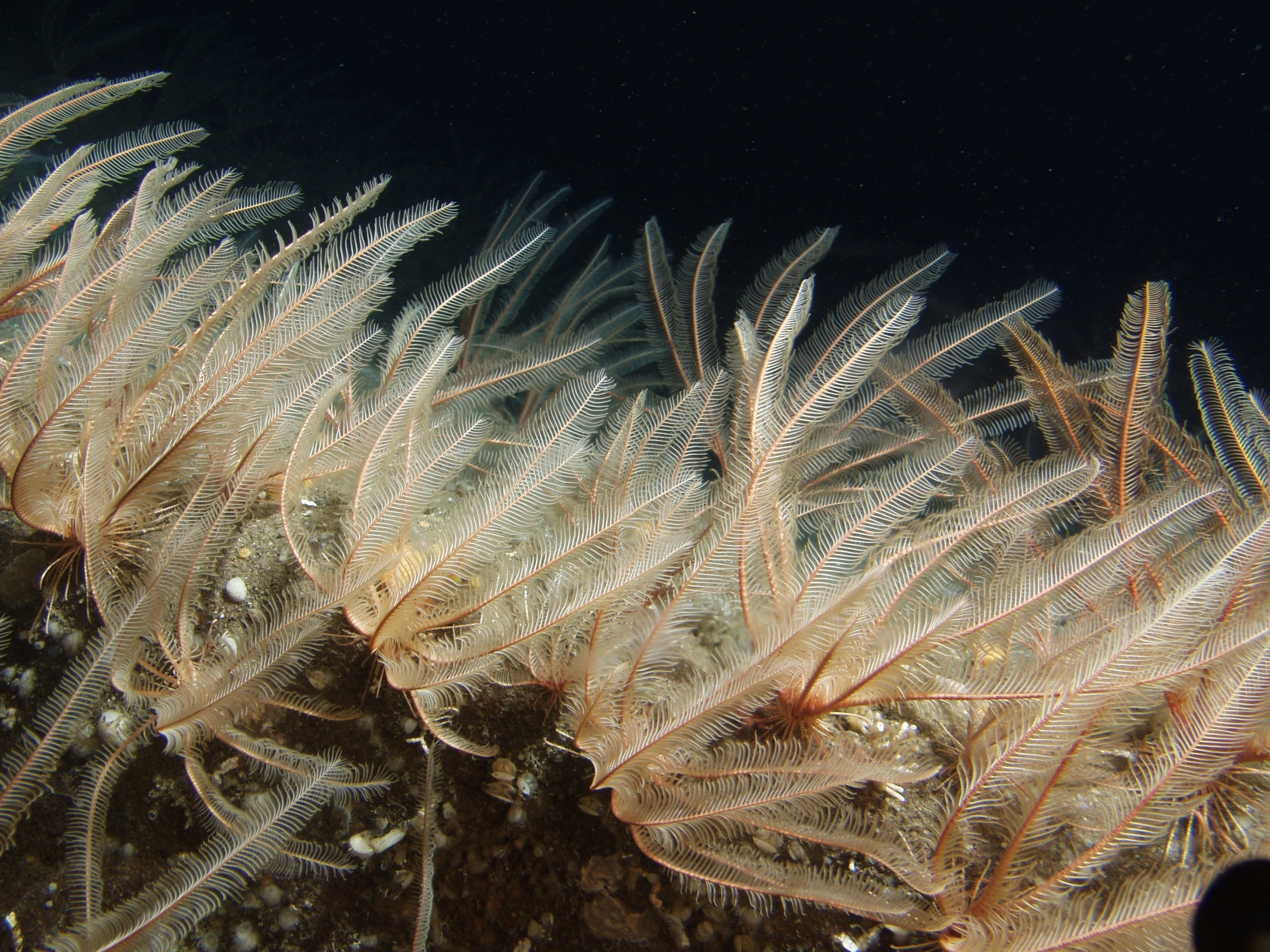 Feathered Crinoids (Florometra serratissima) at 74 meters depth. Latitude 38 03N., Longitude 123 28 W. California, Cordell Bank National Marine Sanctuary.